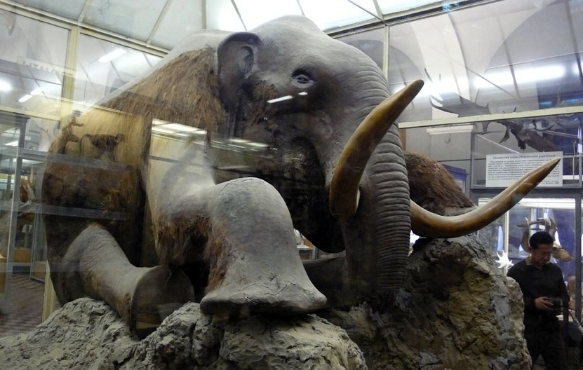 A third of this model is covered with skin of the Beresovka mammoth, Museum of Zoology Saint Petersburg.